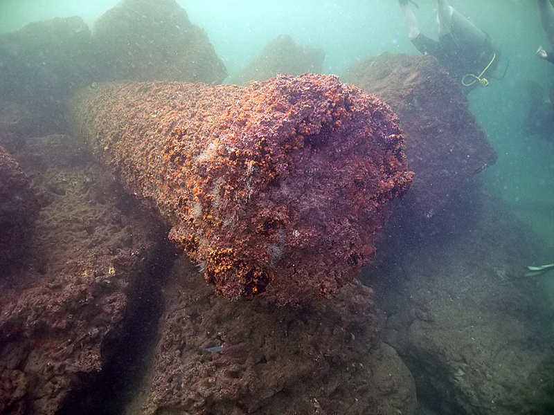 Columns at the underwater museum near the former lighthouse, Alexandria, Egypt